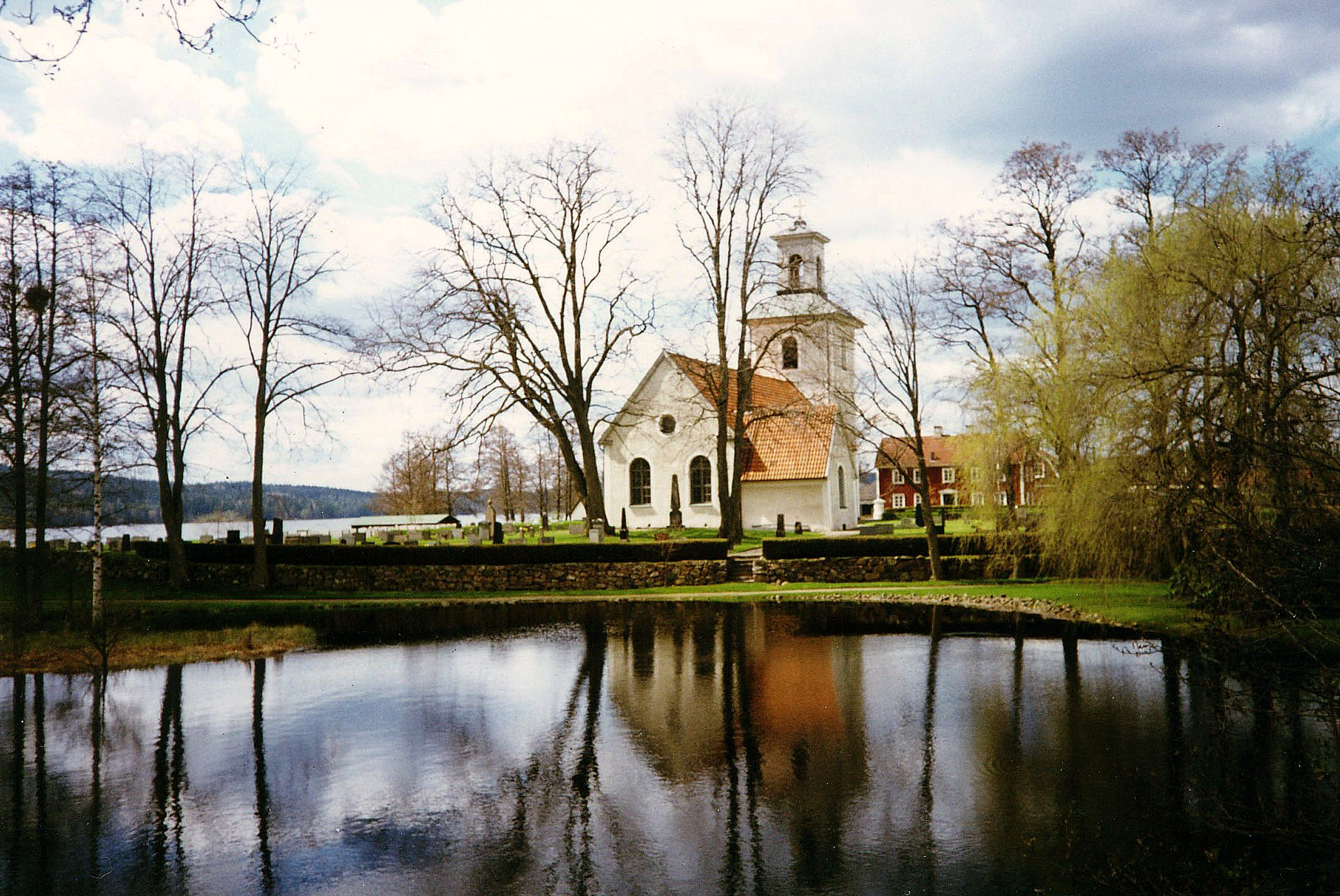 Ramkvilla church.The Church is considered to have dating from the 14th century. The years 1707-1708 the Church nave was extended to the East, then a new straight out of korparti were built. A new sacristy was built in 1710 by långhusets the North wall with connection to the choir. The years 1832 – 1834, erected towers building in the West after drawings by Axel Almfelt.